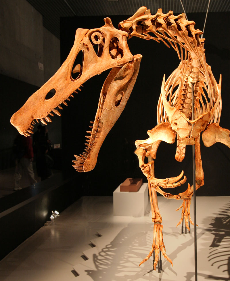 Reconstructed mount of Irritator challengeri (jr synonym = Angaturama)